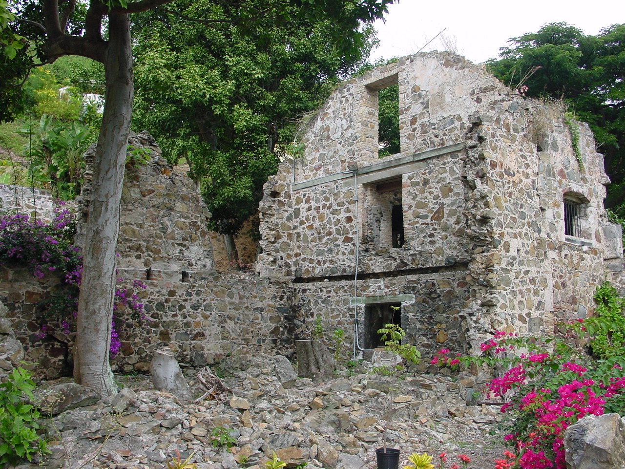 Ruins of a rum distillery, St. Croix, USVI